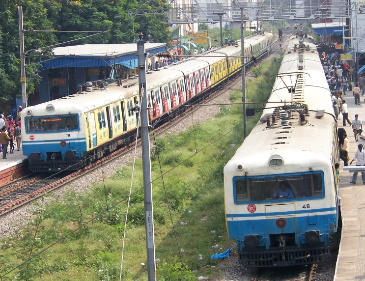 ಎಂ ಎಂ ಟಿ ಎಸ್ ರೈಲು